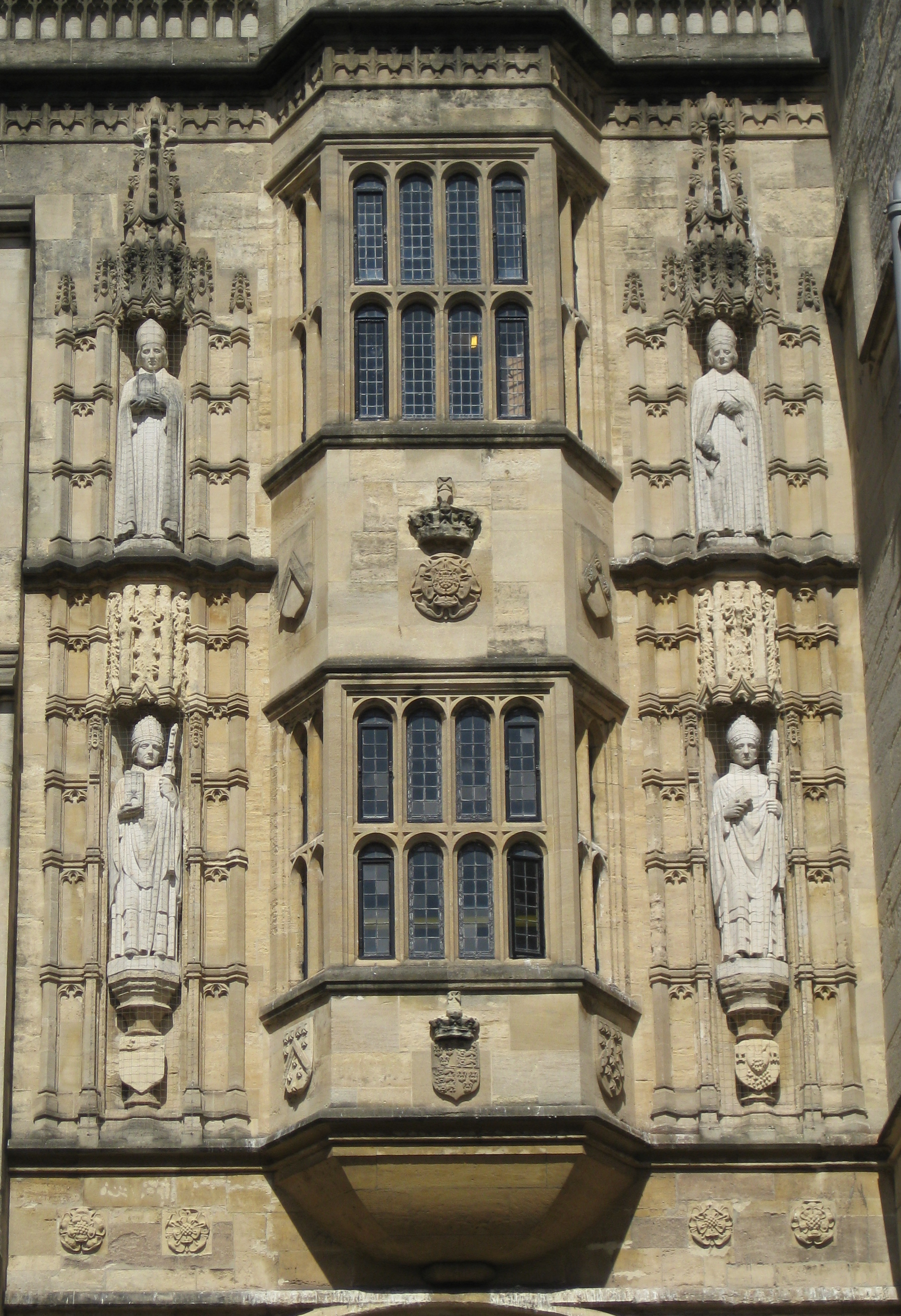 Details of the four statues on the south side of the Great Gatehouse, Bristol